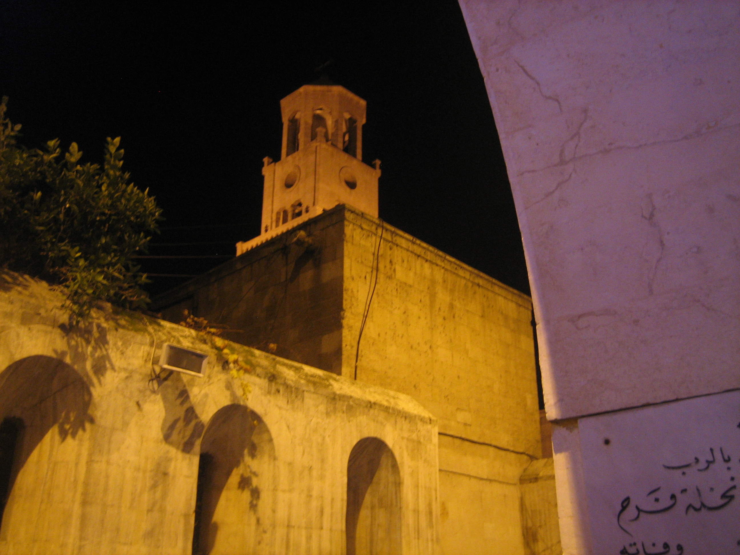 The Greek Orthodox Church of the Dormition of Our Lady and the belfry of the Forty Martyrs Armenian Cathedral